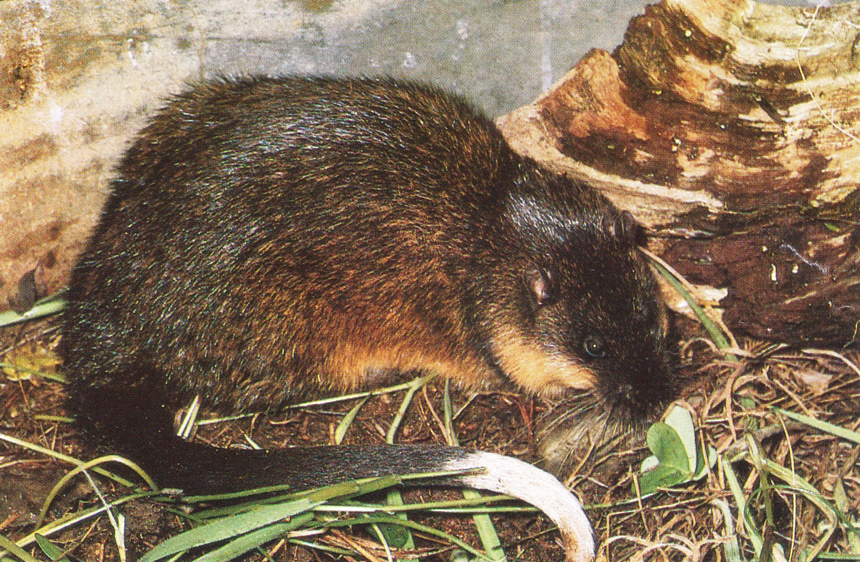 Hydromys chrysogaster taken at Dubbo NSW